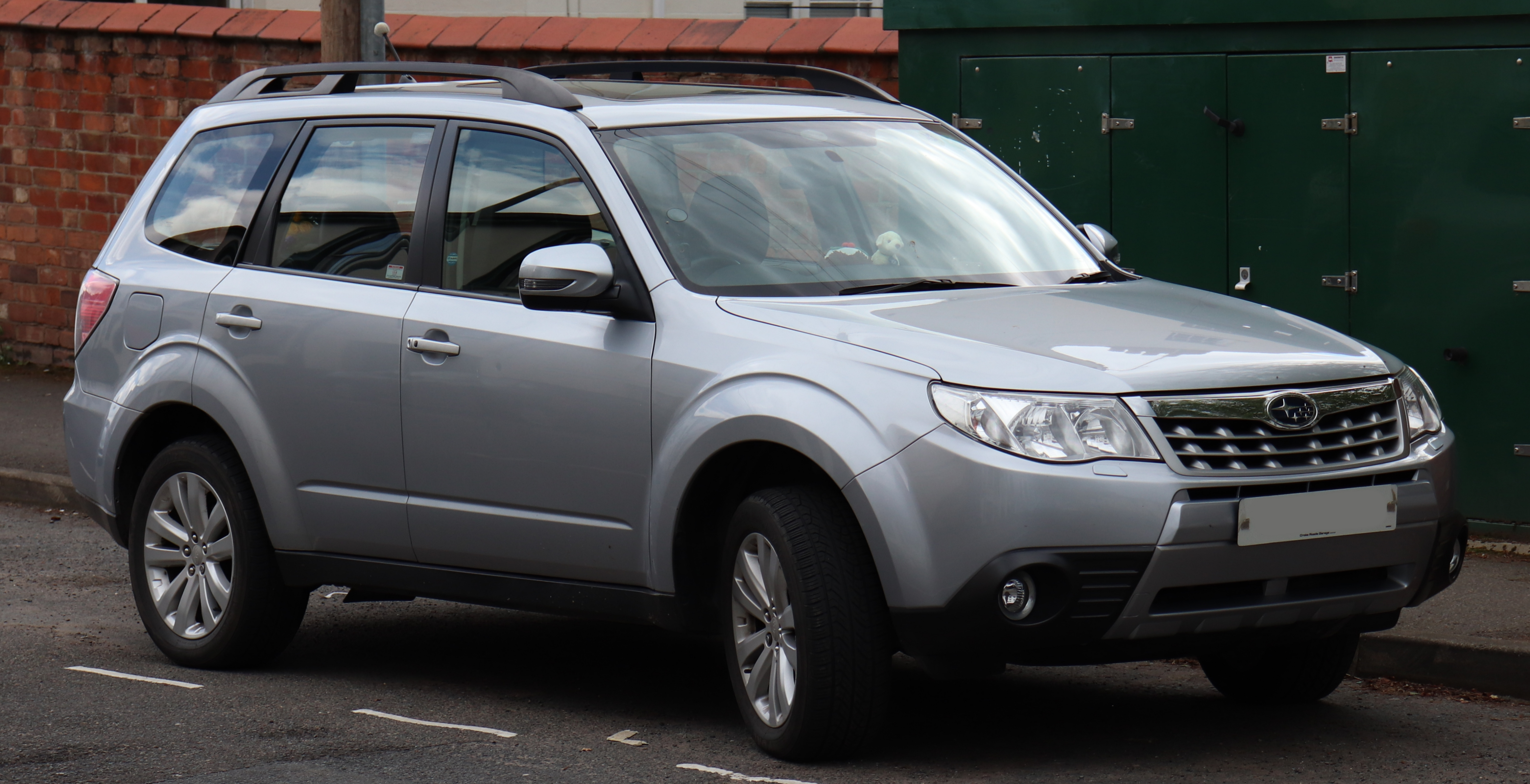 2012 Subaru Forester XS Automatic 2.0 Front Taken in Leamington Spa